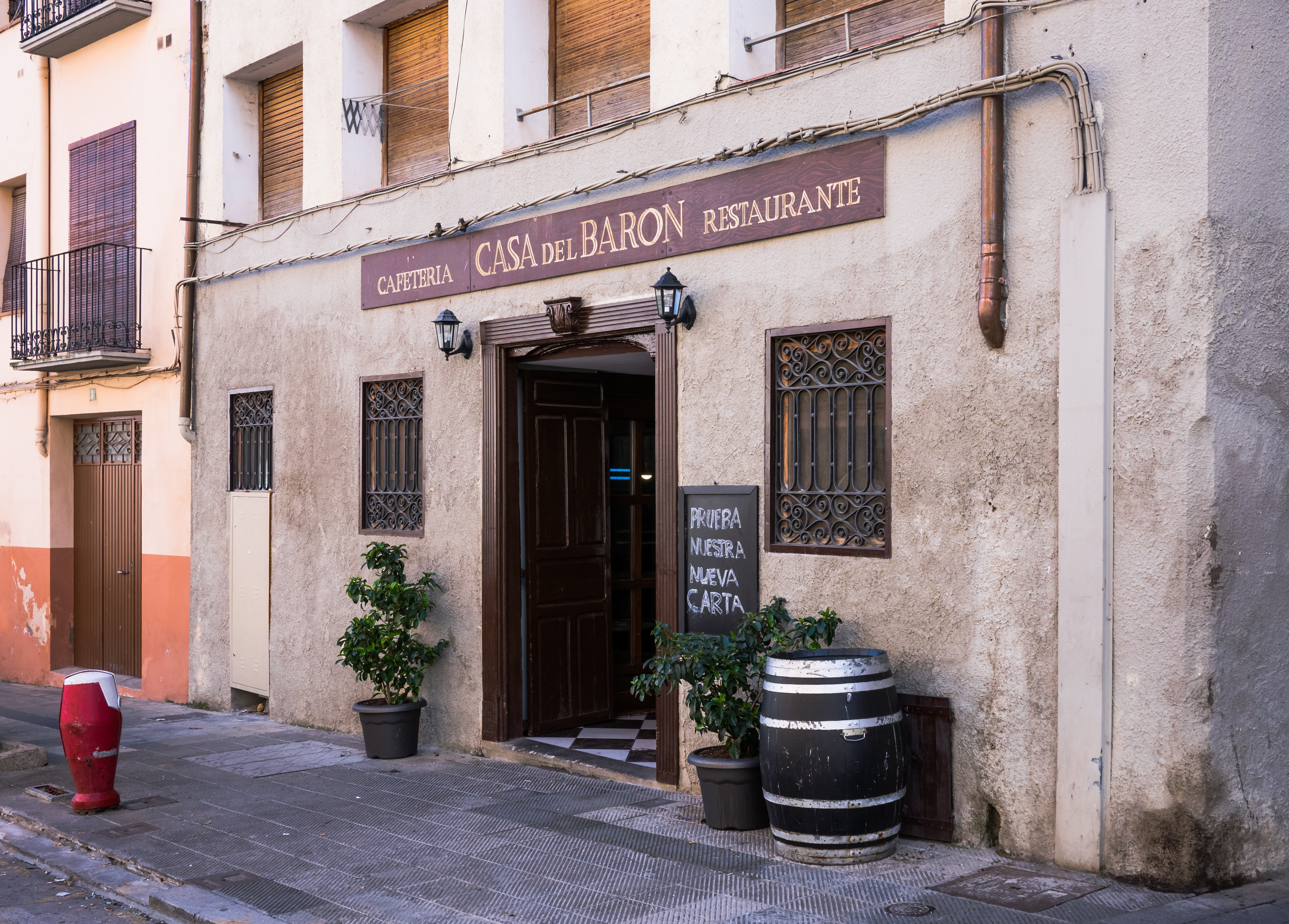 Casa del Barón, cafeteria and restaurant in Graus. Huesca, Aragon, Spain